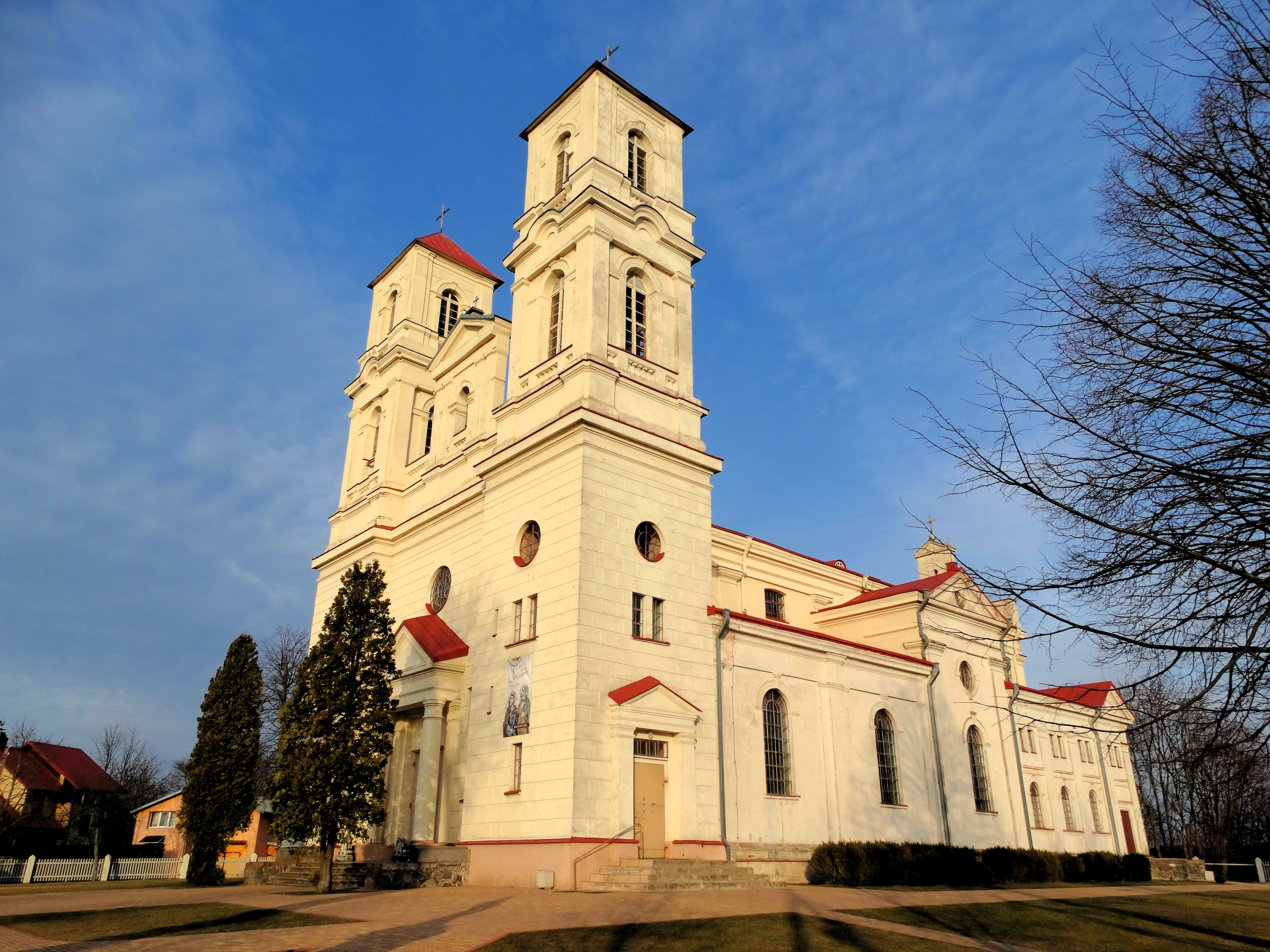 Roman Catholic Churgh, Raudondvaris, Kaunas district, Lithuania